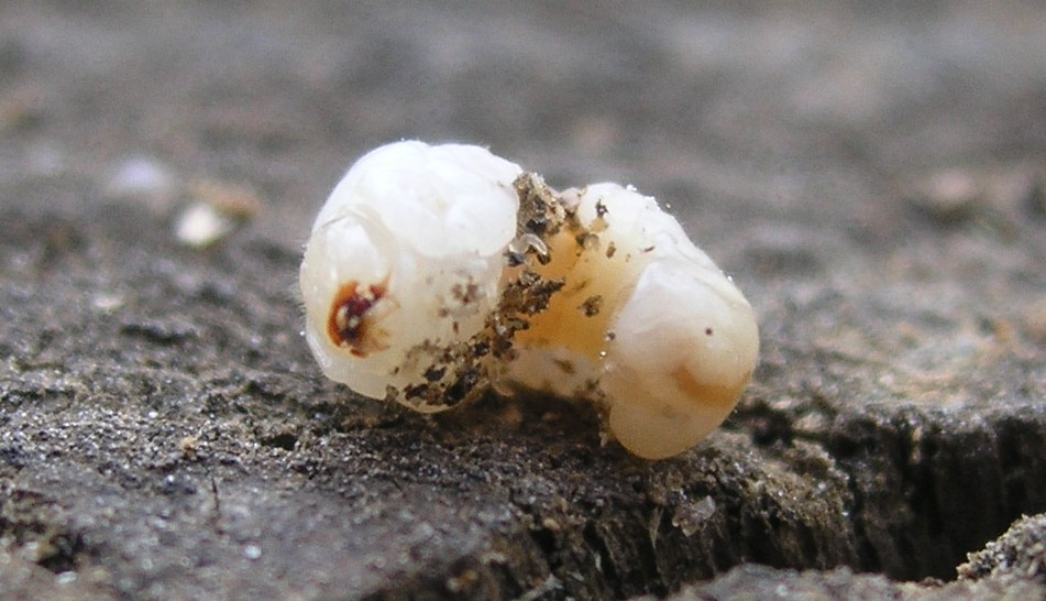 Larva of the common woodworm (anobium punctuatum) Diameter of the larve is about 1.5 mm. Place: Hannover, Germany Date: 14.4.2006 Photgrapher: Kai-Martin Knaak